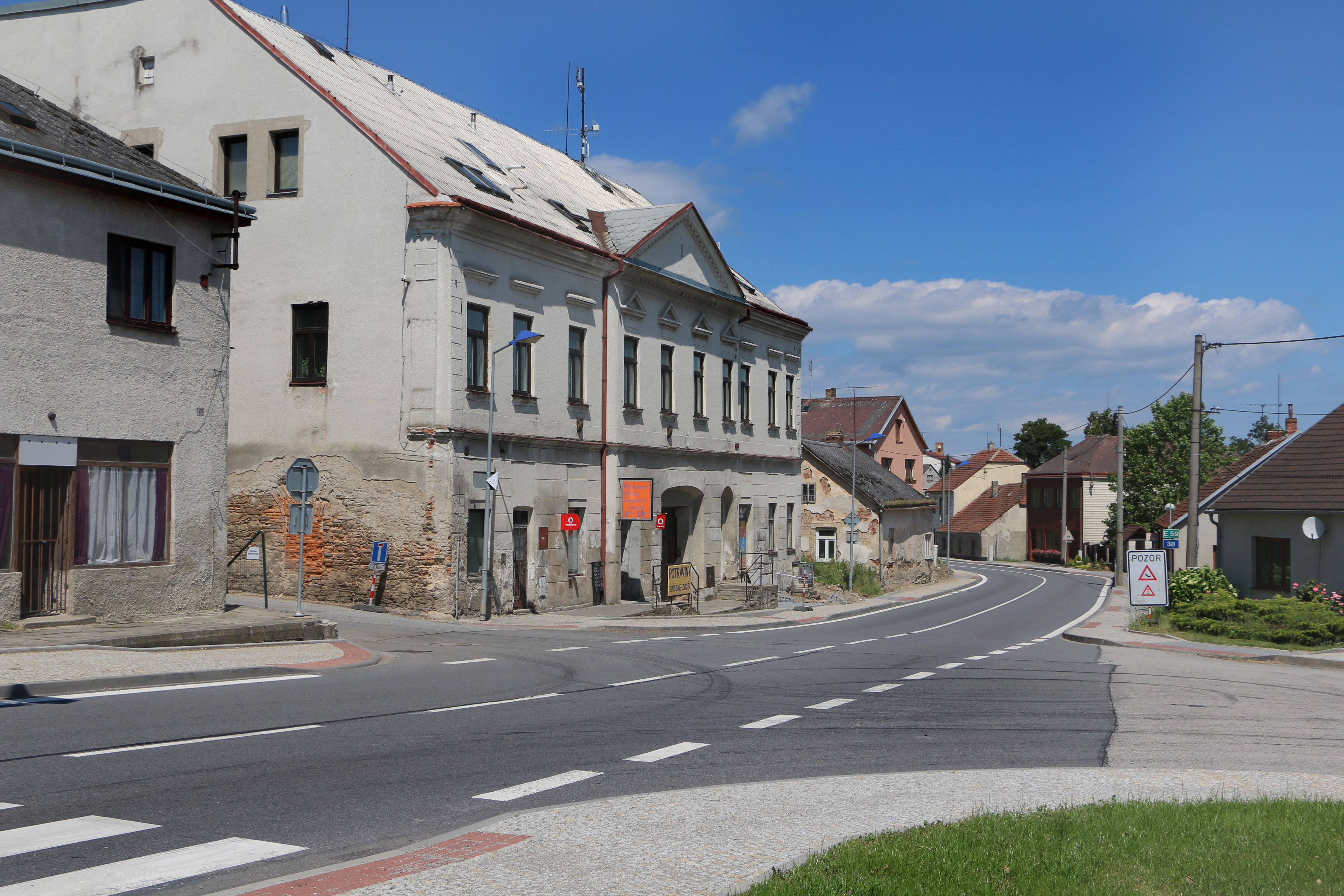 House No 17 in Stonařov, Czech Republic.